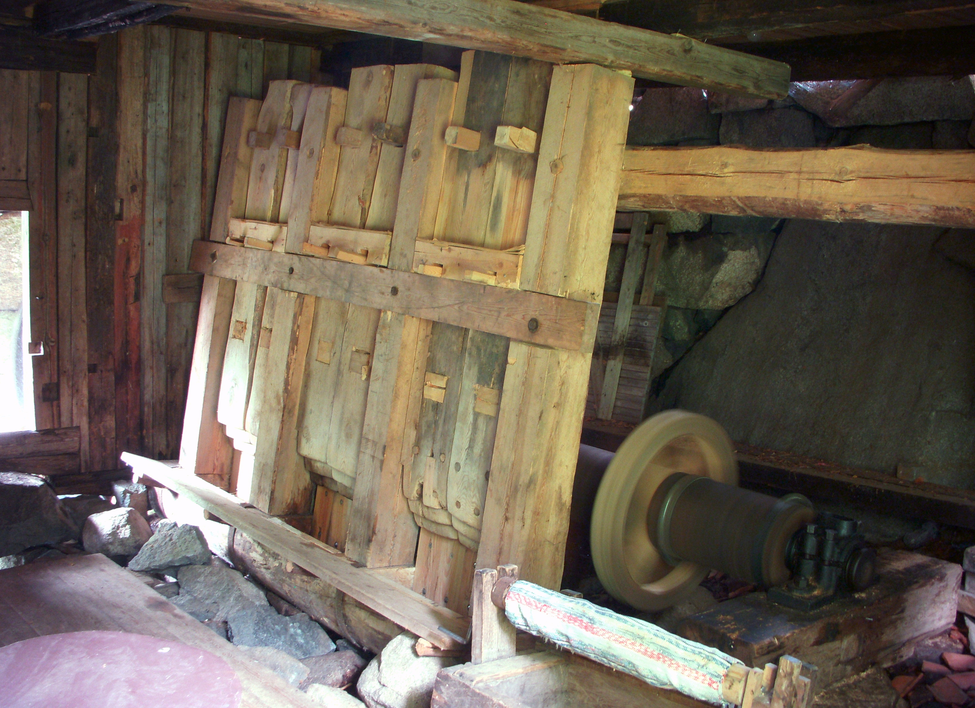 Fulling mill in Kvarna